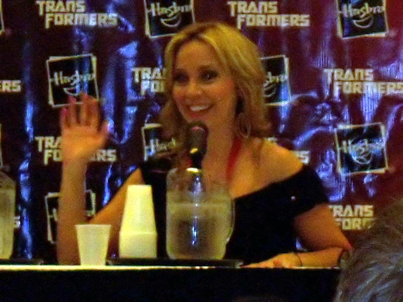 Tara Strong at a panel discussion at BotCon 2008 in Cincinnati, Ohio.